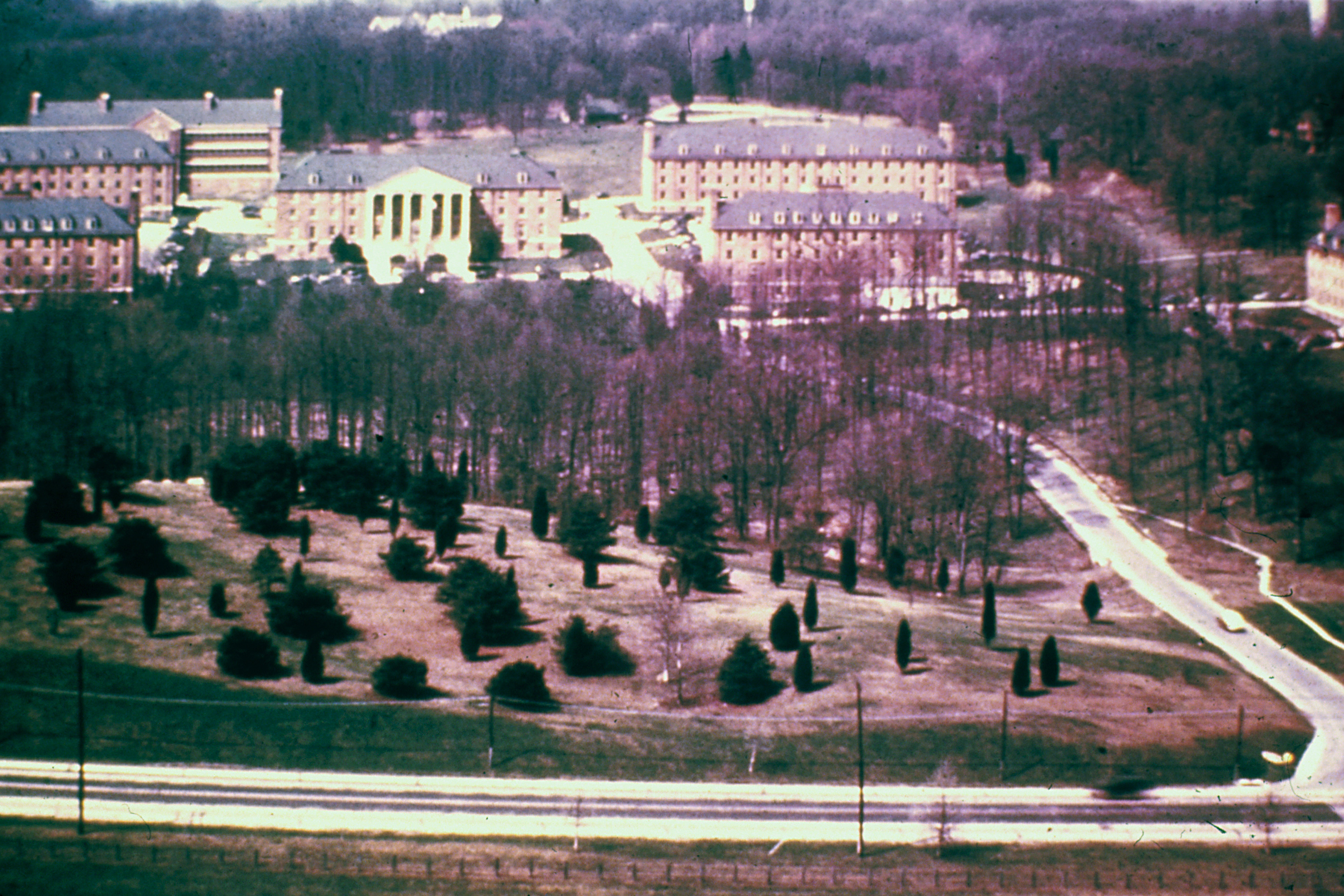 Title NIH Buildings 1-7 Description A 1945 view of National Institutes of Health (NIH) Buildings 1-7 as seen from Rockville Pike, Bethesda, MD. Topics/Categories Historical, Graphics Locations, NIH Type B&W, Photo Source National Cancer Institute